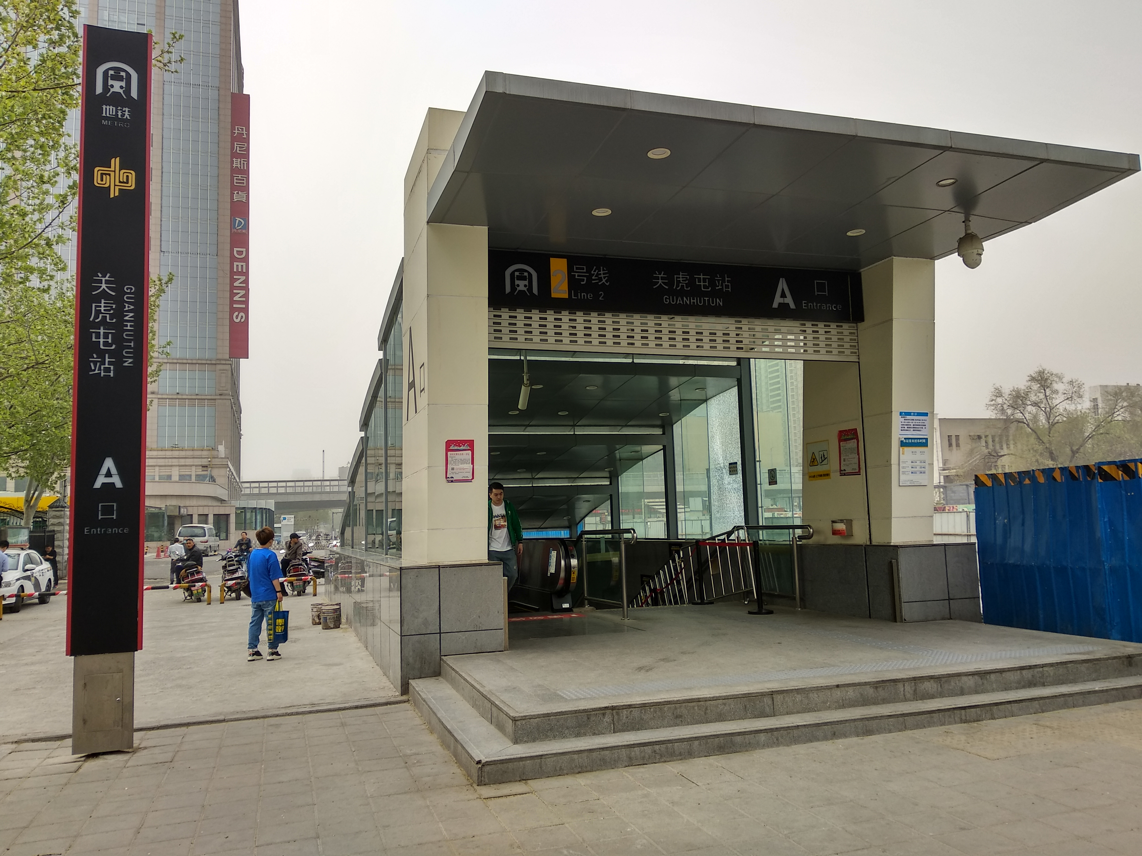 Located in Jinshui District, this is an intermediate station on Line 2, Zhengzhou Metro. It's only 2 minutes' walk to the Zhengzhou Zoo.